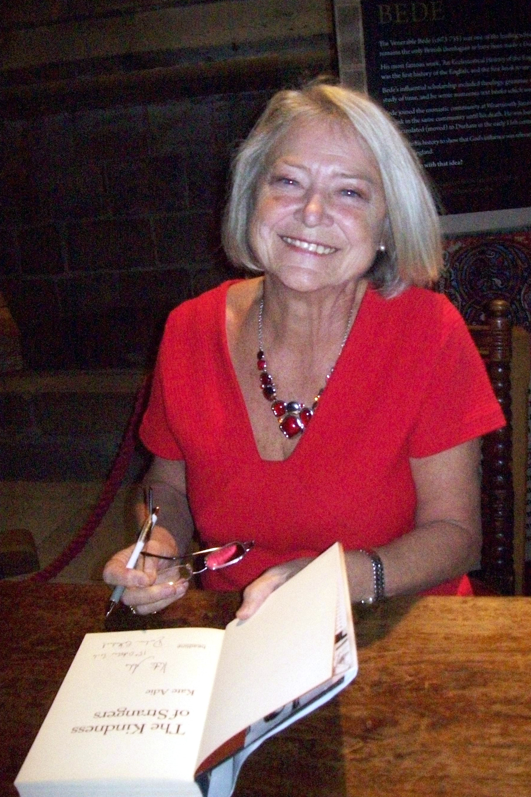 Kate Adie at Durham Cathedral on 15 October 2014, signing a copy of her autobiography The Kindness of Strangers after a talk about her book Fighting on the Home Front: The Legacy of Women in World War One as part of Durham Book Festival.